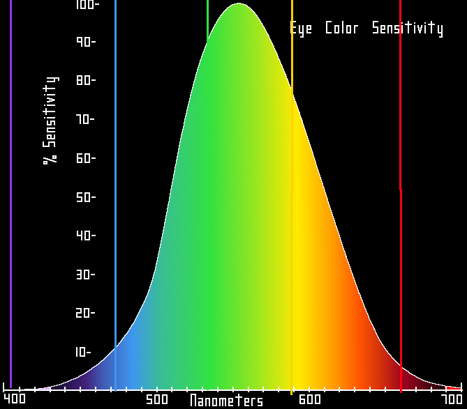 Eye sensitivity diagram. The colored vertical lines are the wavelengths of some common laser colors. The yellow line is the 589nm sodium line.